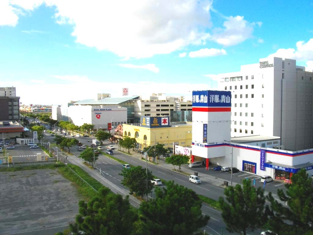 Omoromachi